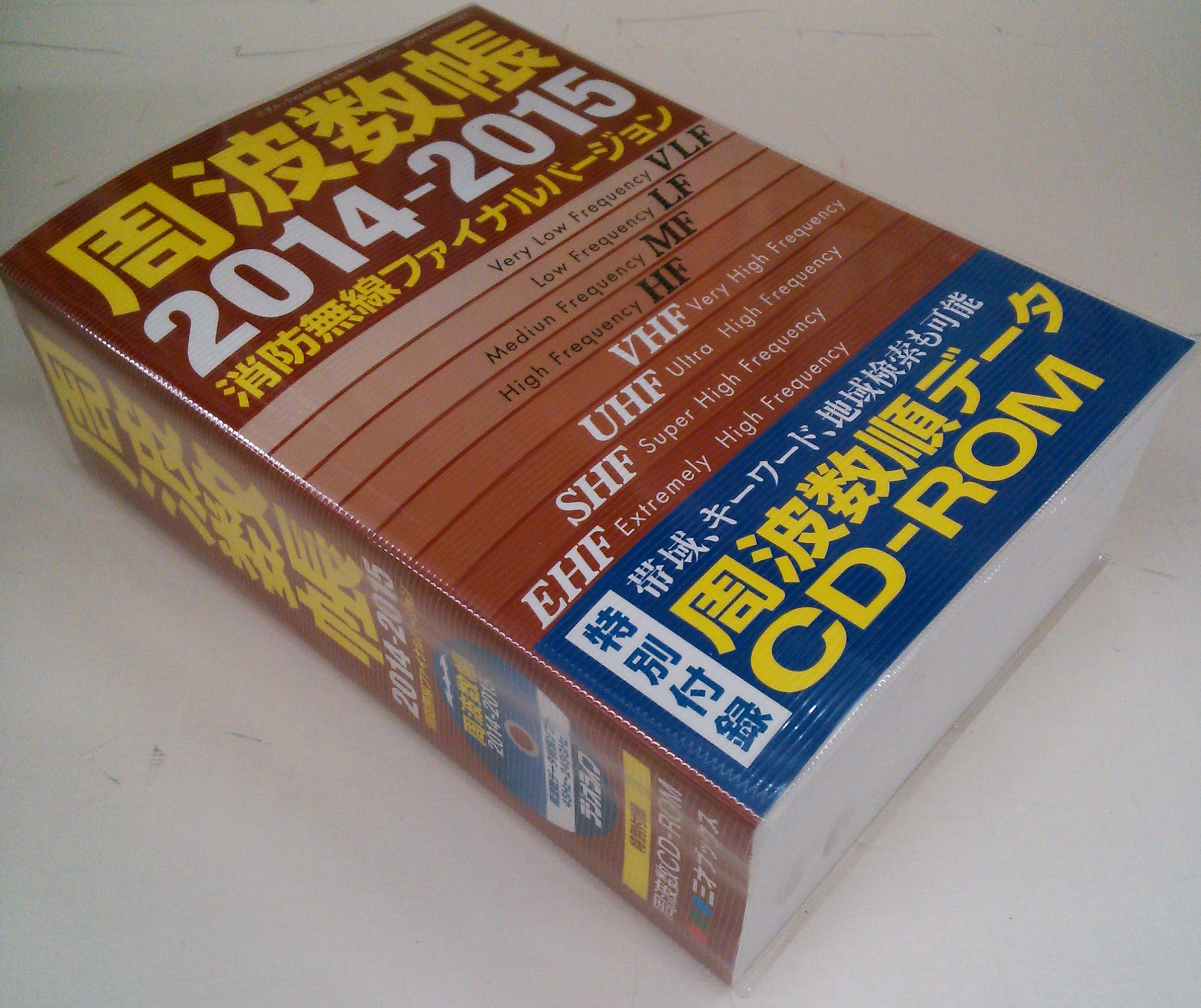 Japanese Radio Frequency Directory with a free gift CD-ROM "Shuhasu Chou 2014-2015". This Directory can consult by two ways. Transmission source and Frequency's intended use Frequency Publisher : Sansai Books Inc ISBN-10 : 4861996287 ISBN-13 : 978-4861996283 Publication Date : 2013/10/22